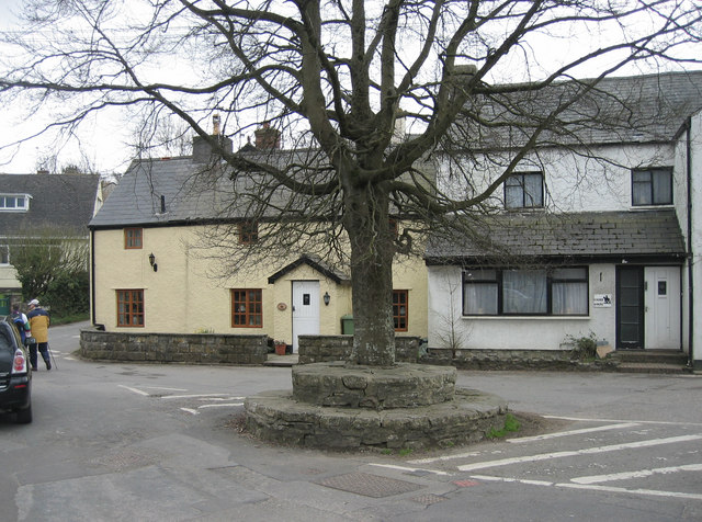 Aberthin, near Cowbridge. The attractive village of Abertin sits on the busy A4222 just north of Cowbridge.